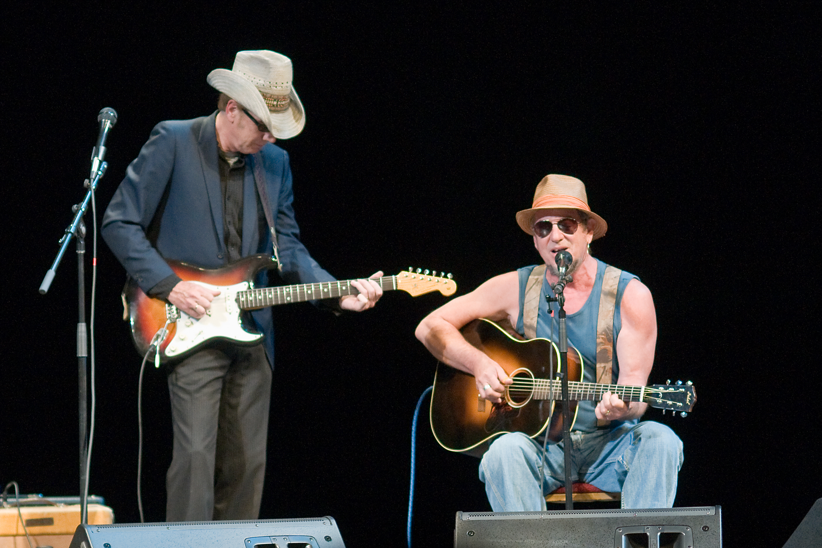 Greg Brown and Bo Ramsey in Dubuque Iowa Five Flags May 30 2008